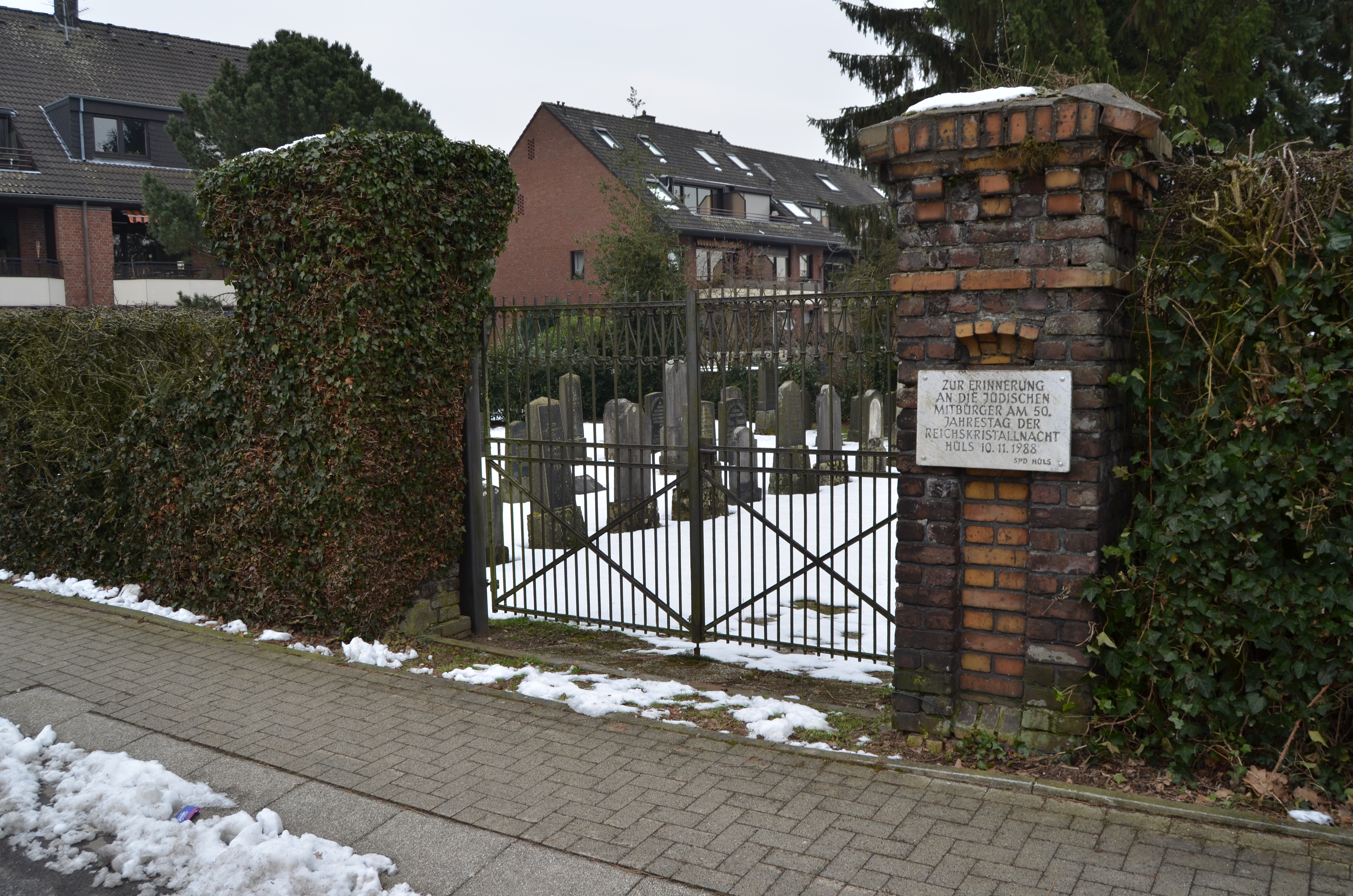 Krefeld (North Rhine-Westphalia, Germany) – district Hüls – Jewish cemetery This image shows a heritage building in Germany, located in the North Rhine-Westphalian city Krefeld (no. 929). This photograph was taken with a Nikon D7000.